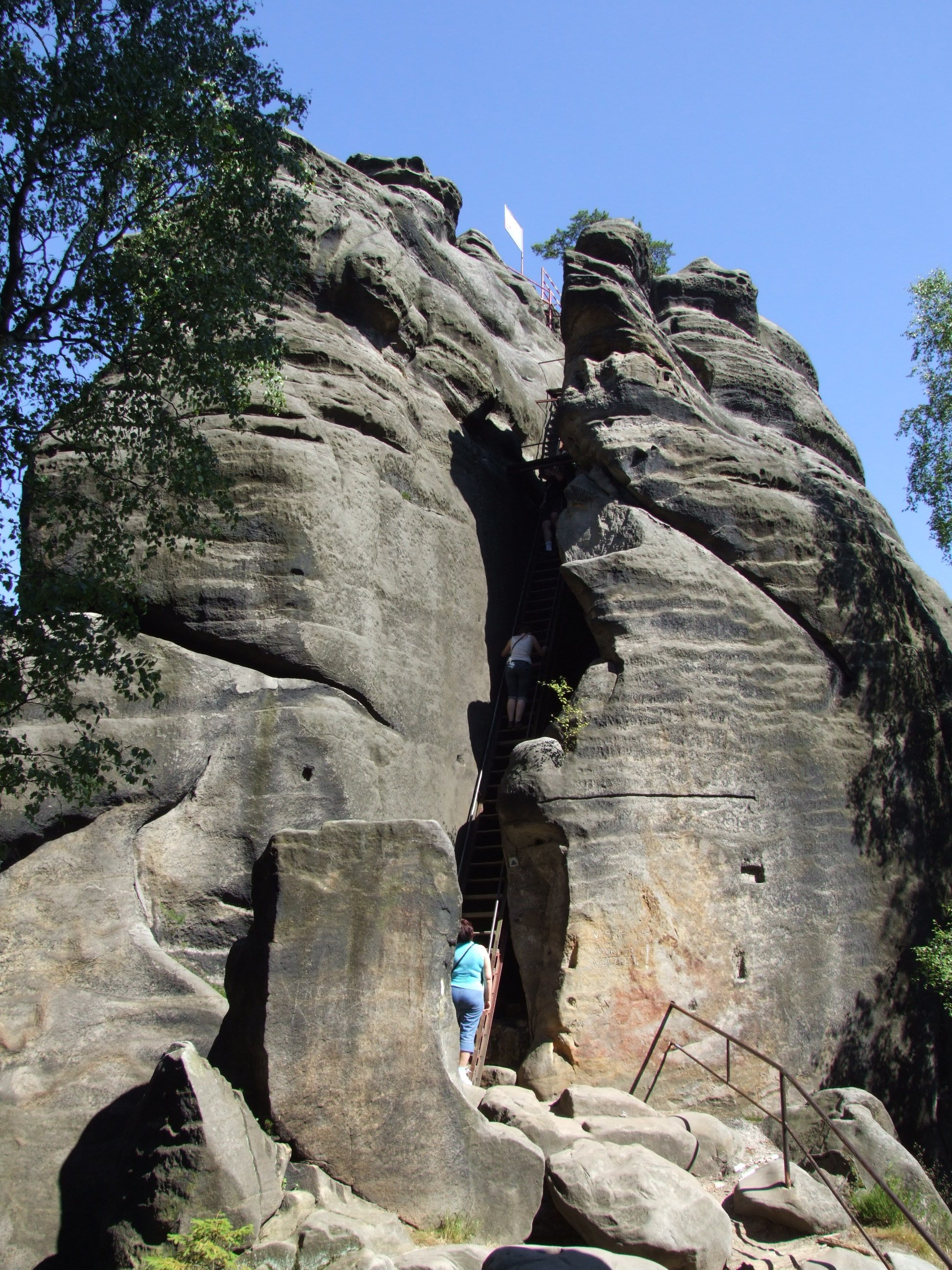 Teplické skalní město (Wekelsdorfer Felsen) - stairs to the castle Střmen (Burg Stremen)